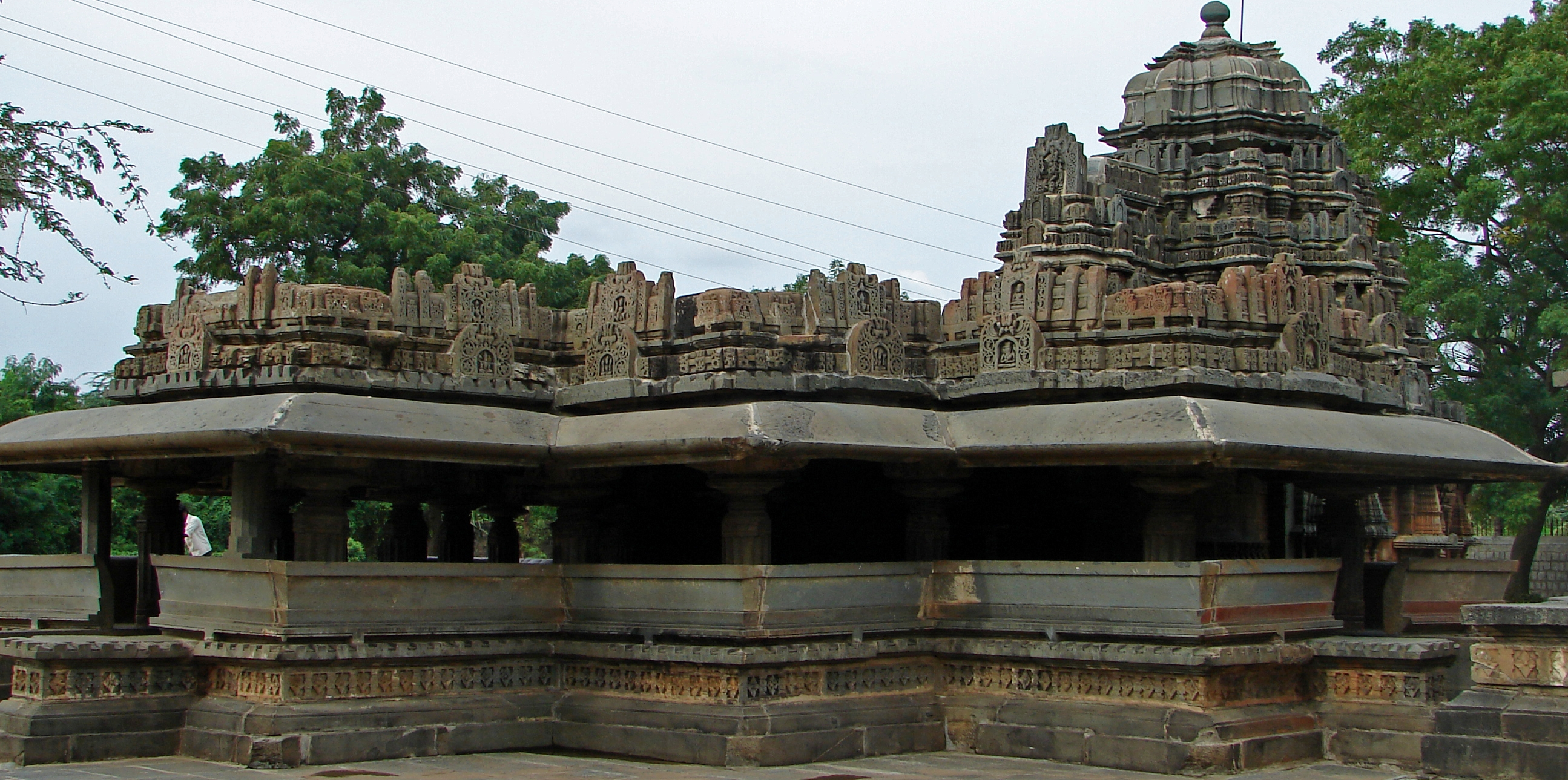 Siddhesvara temple in Haveri, Haveri district, Karnataka state, India